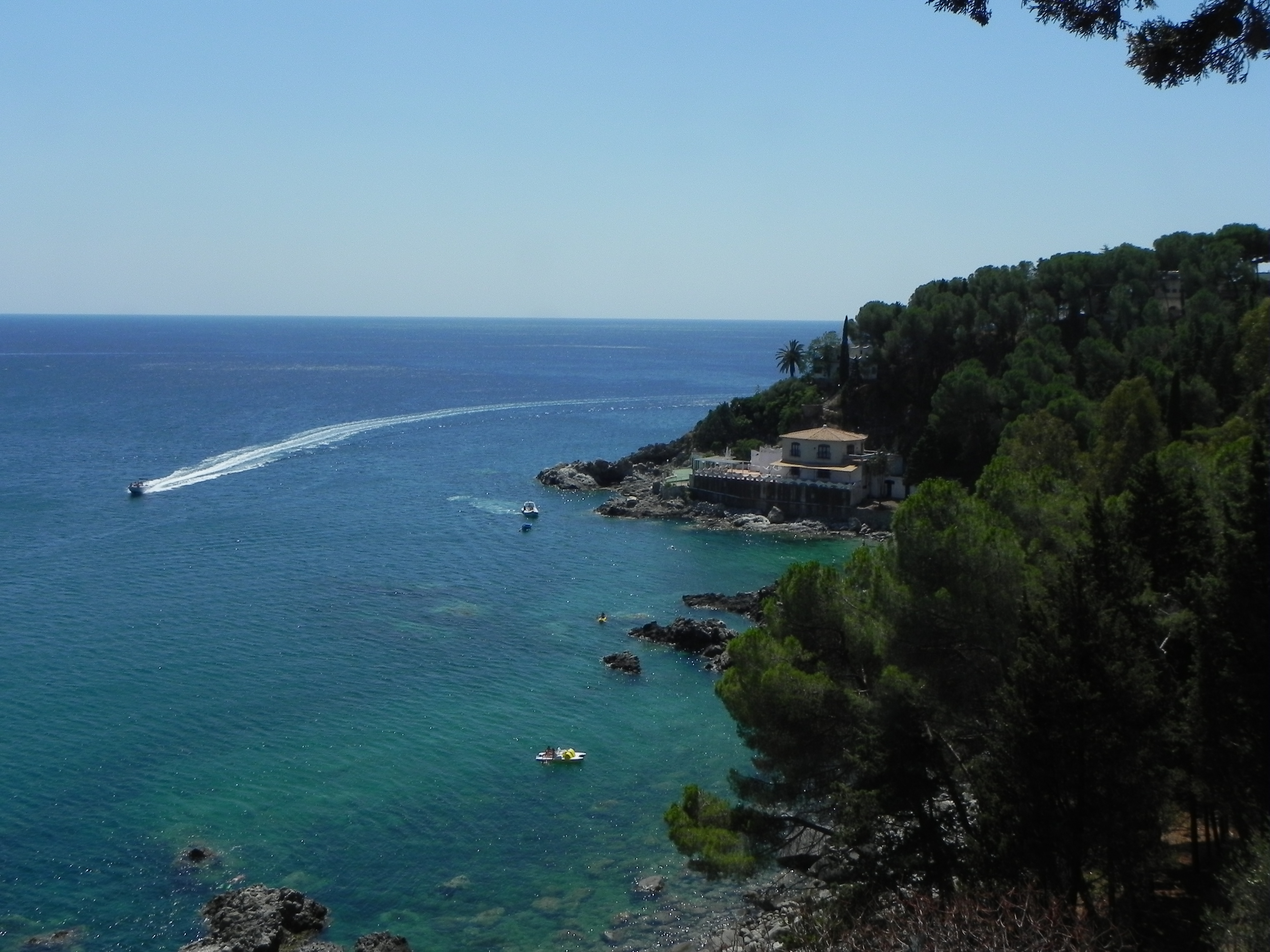 Le acque cristalline dello Jonio